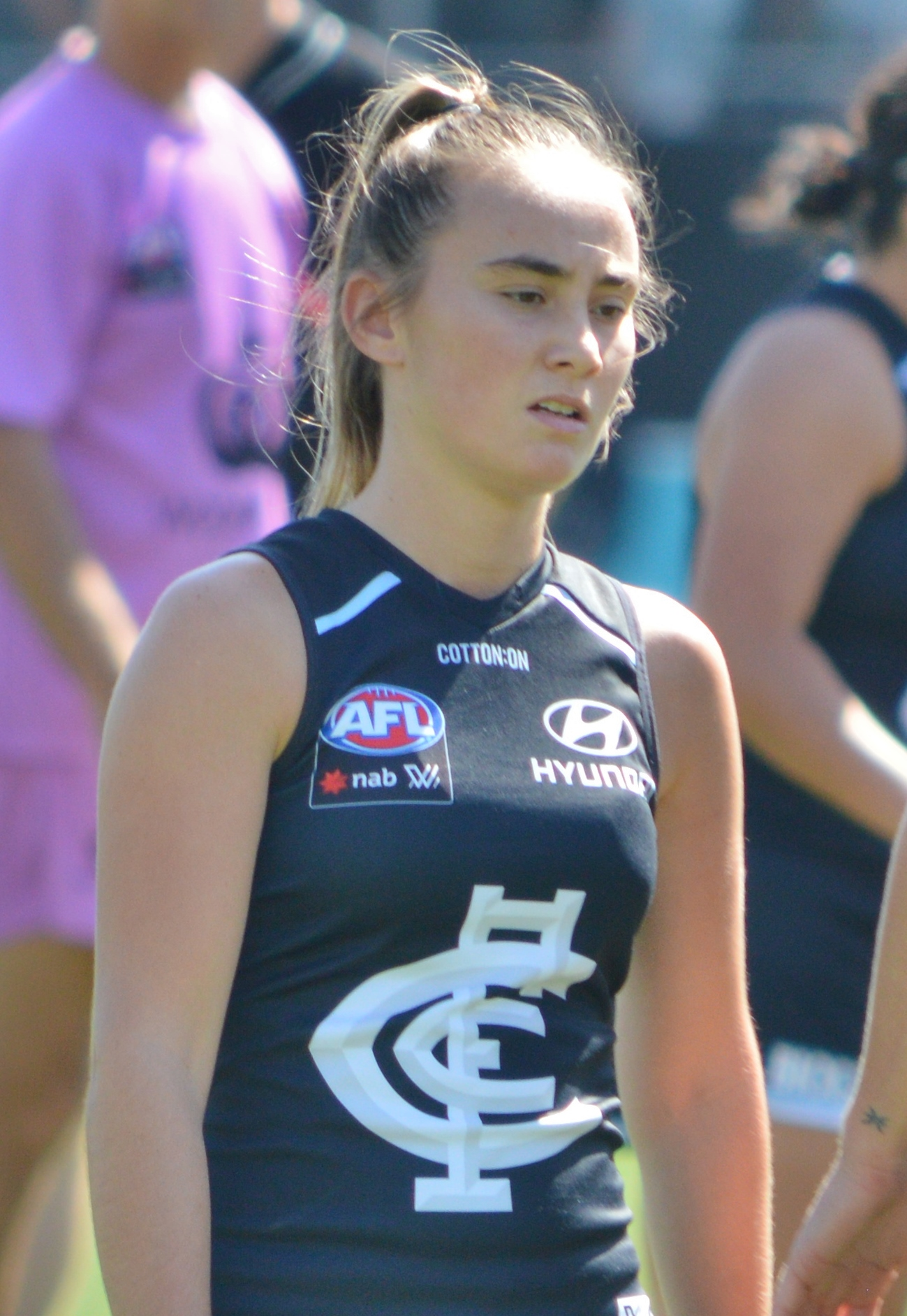 Georgia Gee with Carlton during a preliminary final against Fremantle at Ikon Park in March 2019.